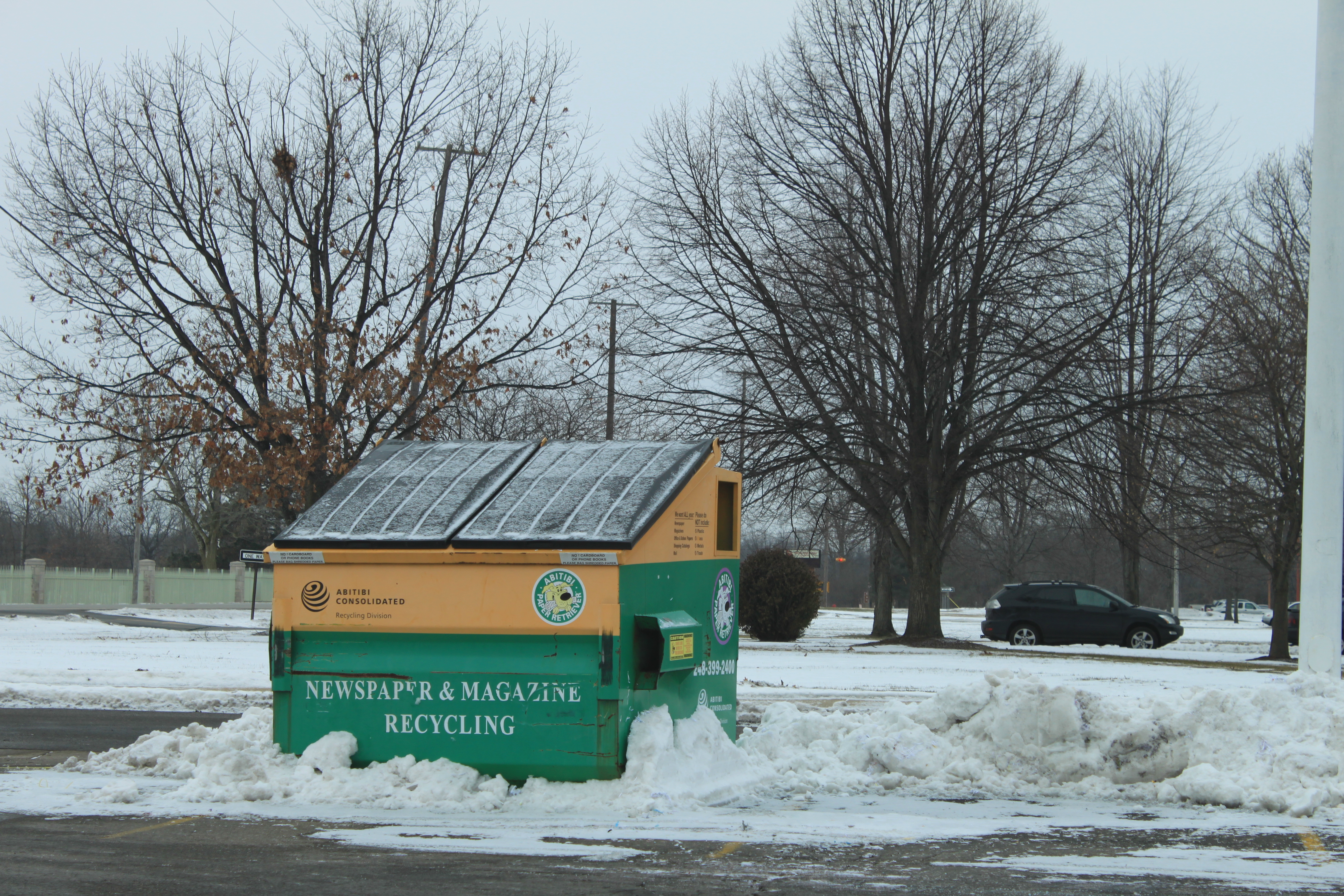 Abitibi-Consolidate recycling bin, Huron High School, New Boston, Michigan